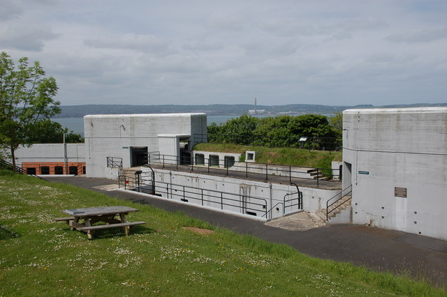 Grey Point Fort, Helen's Bay (2) See 441326. This is general view of the fort with no. 2 gun emplacement of the left and no. 1 on the right. So far as I know the underground section in the middle was an ordnance store. The picnic table is a later addition!!